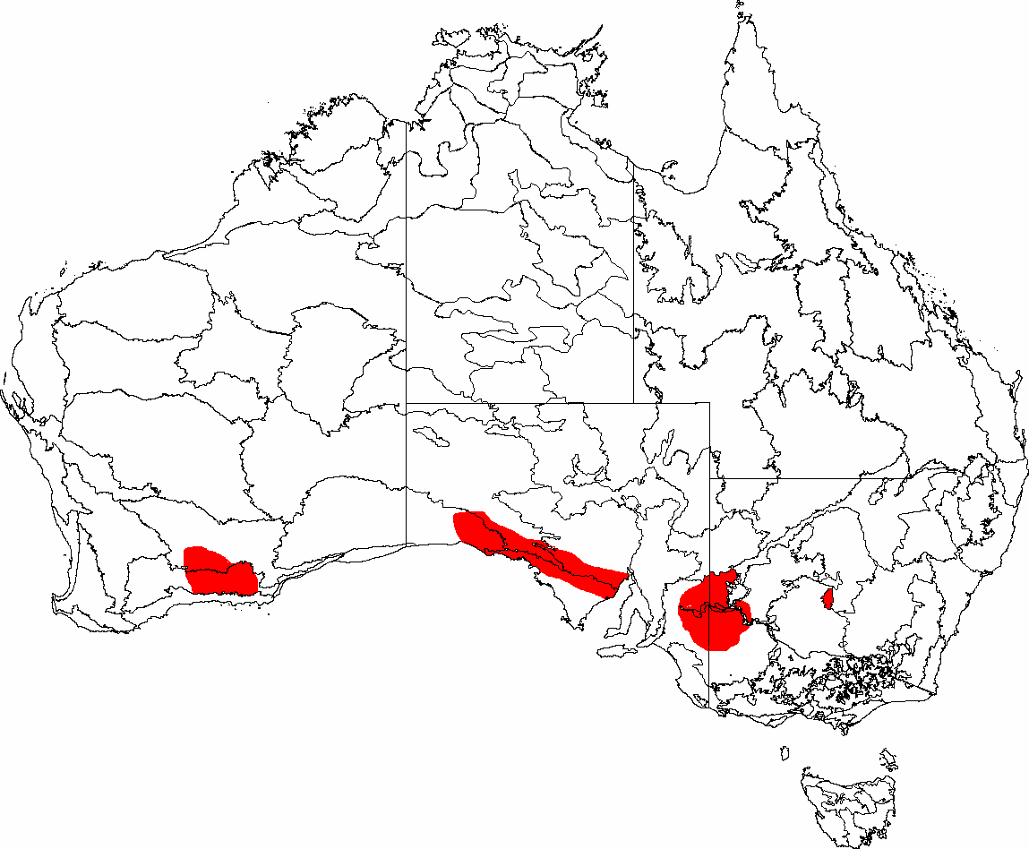 Distribution of Southern Ningaui.